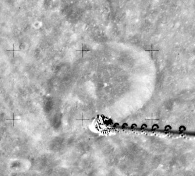 Ctesibius lunar crater - image AS16-M0625